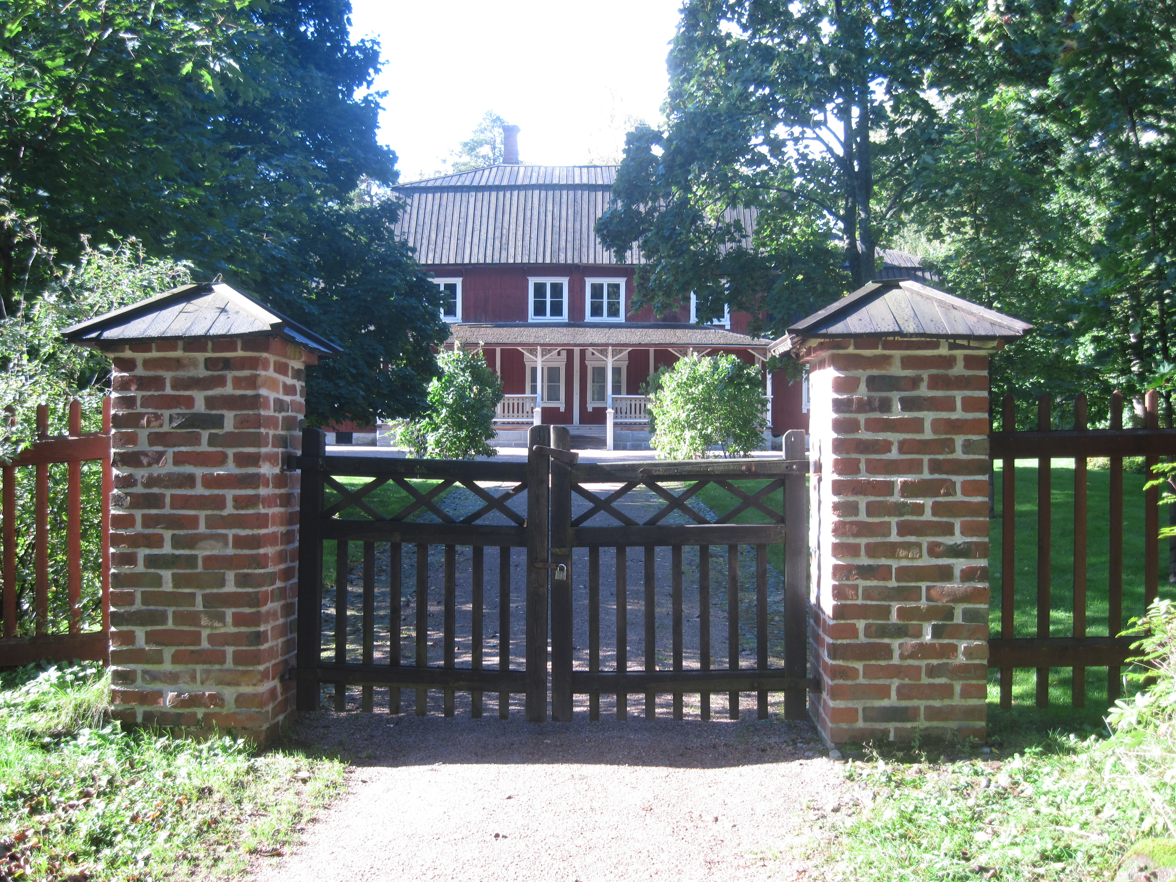 Main building of Kahiluoto Manor in Seurasaari Open Air Museum, Helsinki